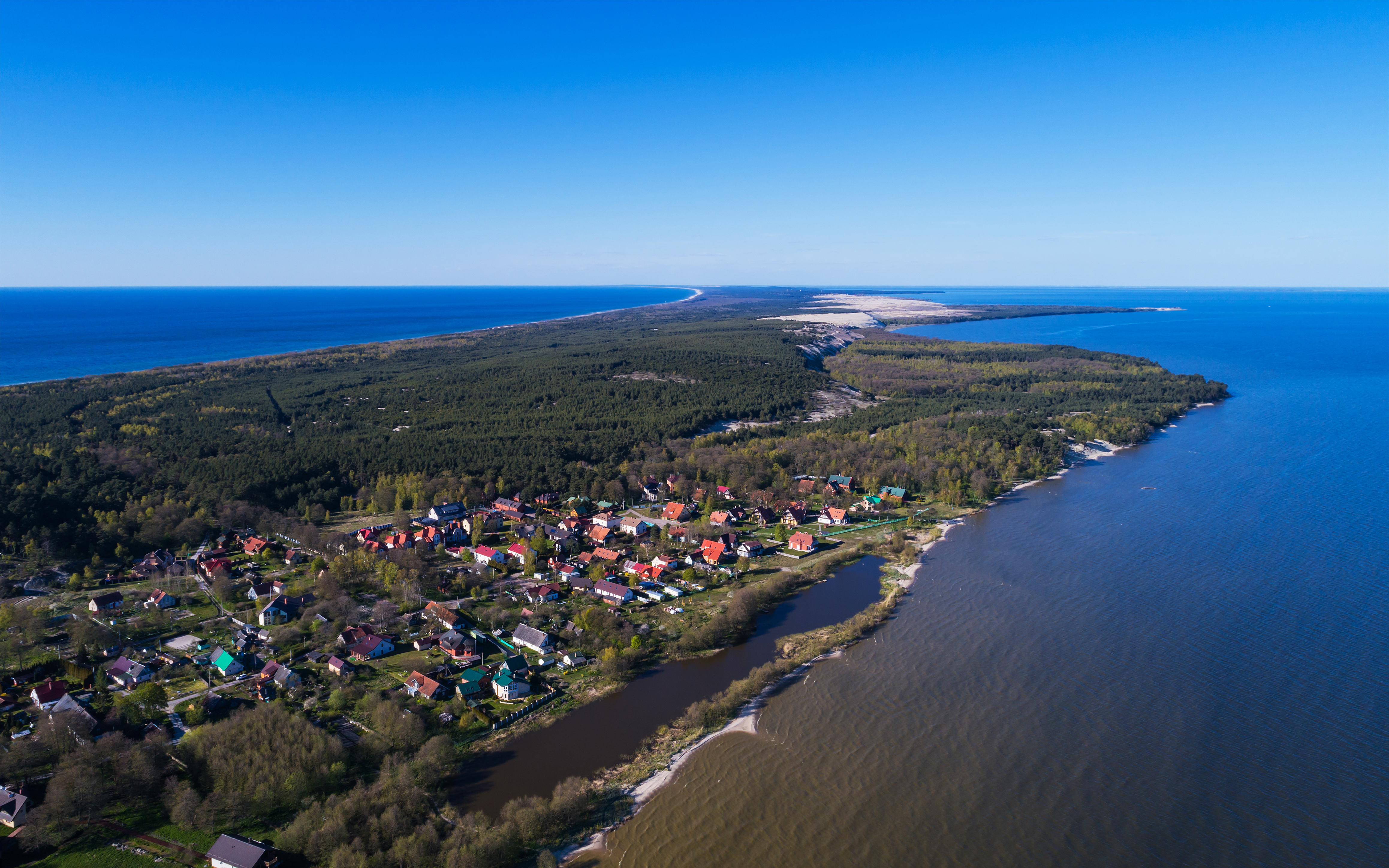 Curonian Spit in Kaliningrad Oblast (Russia). Aerial view near Epha Dune. View of Morskoe settlement.